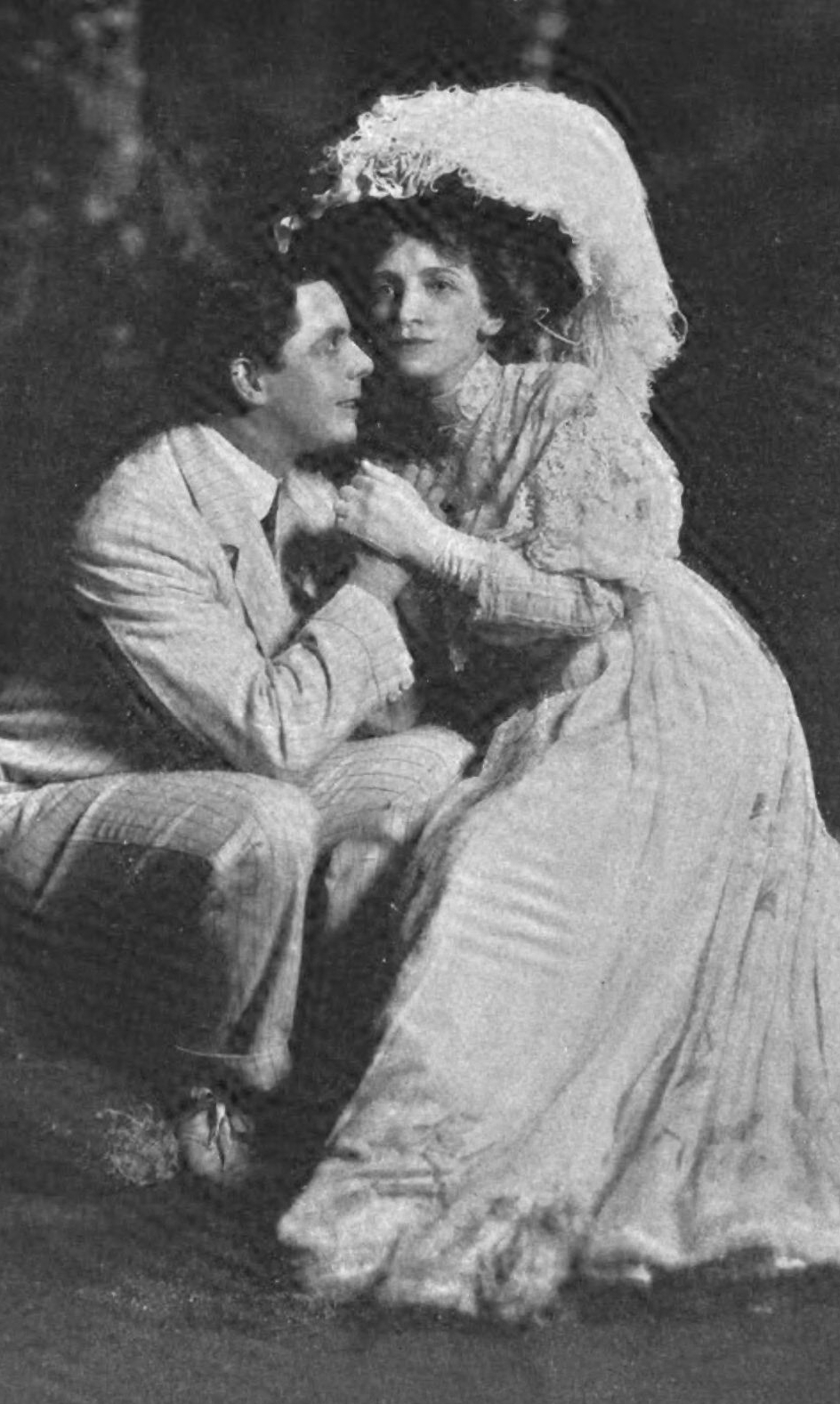 Jessie Bonstelle ( November 11, 1871–October 7, 1932) in The Great Question (1908)